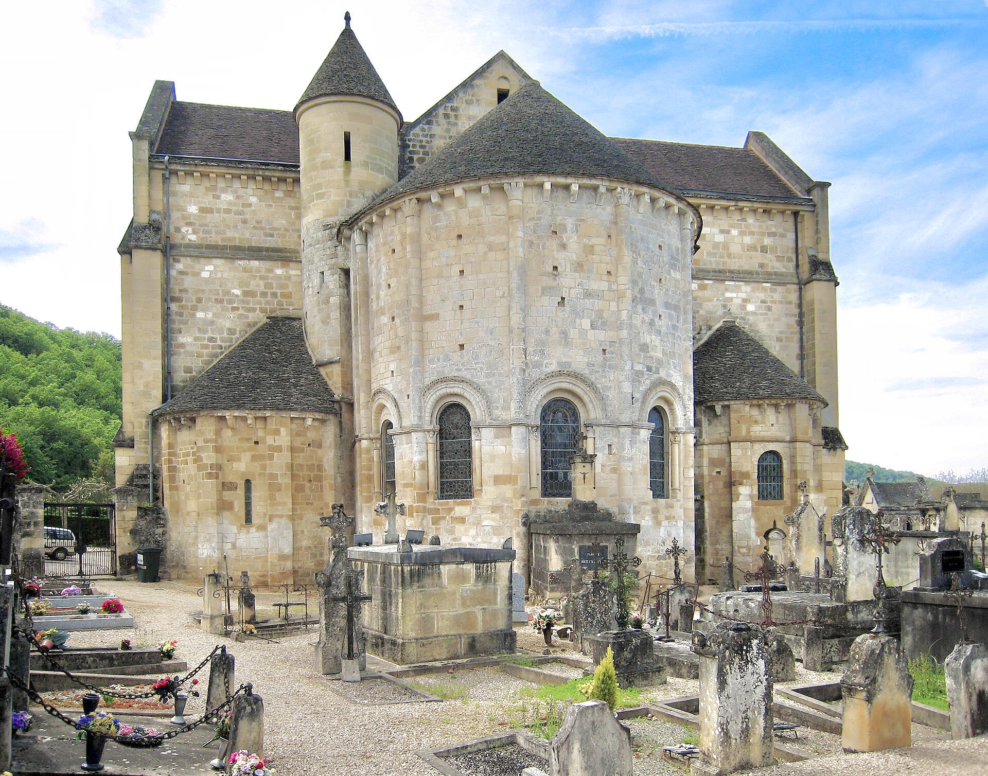 Village of Cénac in the Département of Dordogne/France - choir side of the Romanesque church